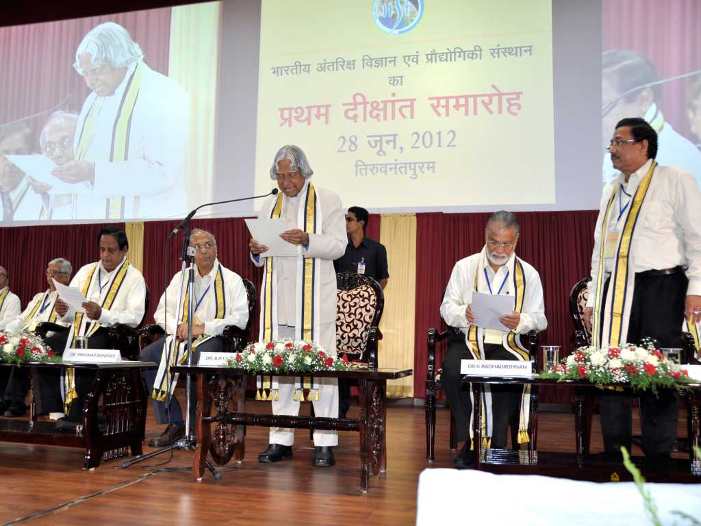 Dr. A.P.J. Abdul Kalam, Chancellor, IIST delivering the presidential address during the first convocation of IIST. Other dignitaries on stage include Shri. P.S. Veeraraghavan, Director, VSSC, Dr. K. Radhakrishnan, Chairman, ISRO and Dr. K.S. Dasgupta, Director, IIST